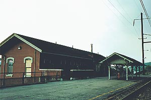 The Amtrak station at Coatesville, Pennsylvania. The building beyond is disused.